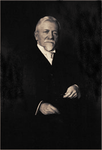 Photograph of portrait of Henry L. Pittock hanging at Pittock mansion, undated, from the collection of the late Dr. John S. Gilhousen. Courtesy Gilhousen Family Association.